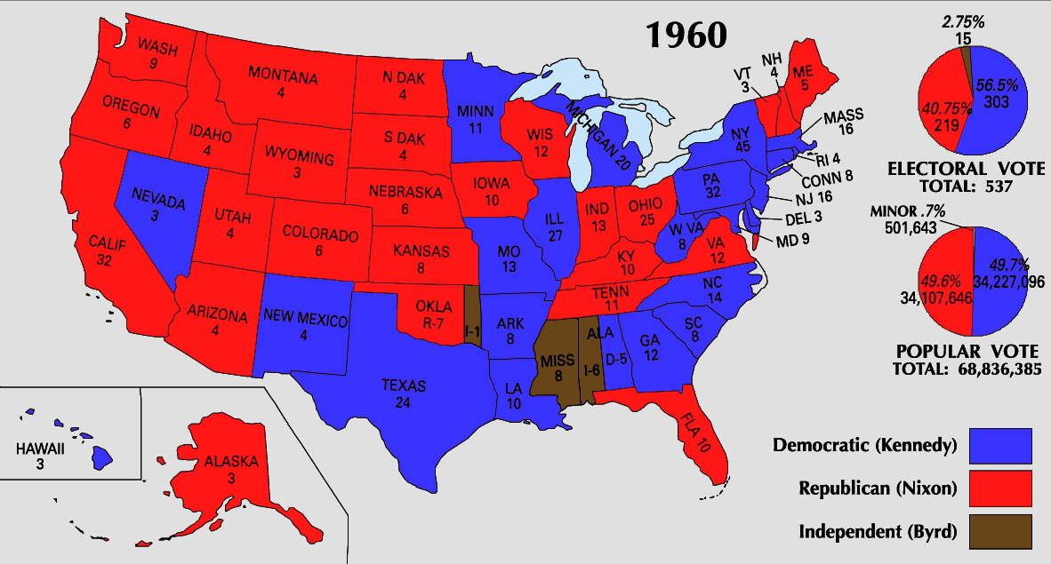 1960 Electoral College Map